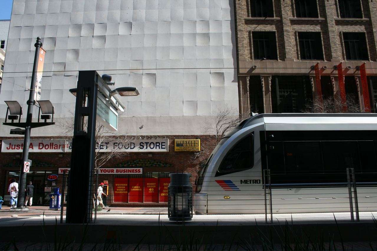 Main Street Square (METRORail station), Houston.